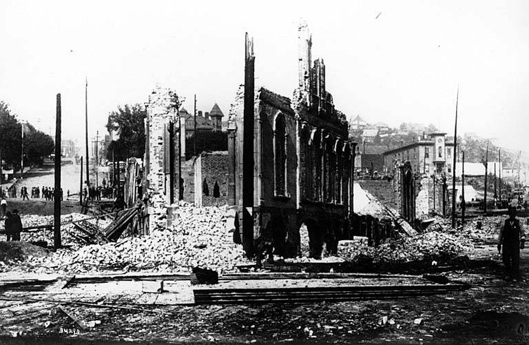 Original photographer unknown. Looking east at the ruins of the Occidental Hotel at corner of James St. and Yesler Way. Subjects (LCTGM): Fires--Washington (State)--Seattle Subjects (LCSH): Seattle (Wash.)--Fire, 1889; Occidental Hotel (Seattle, Wash.)